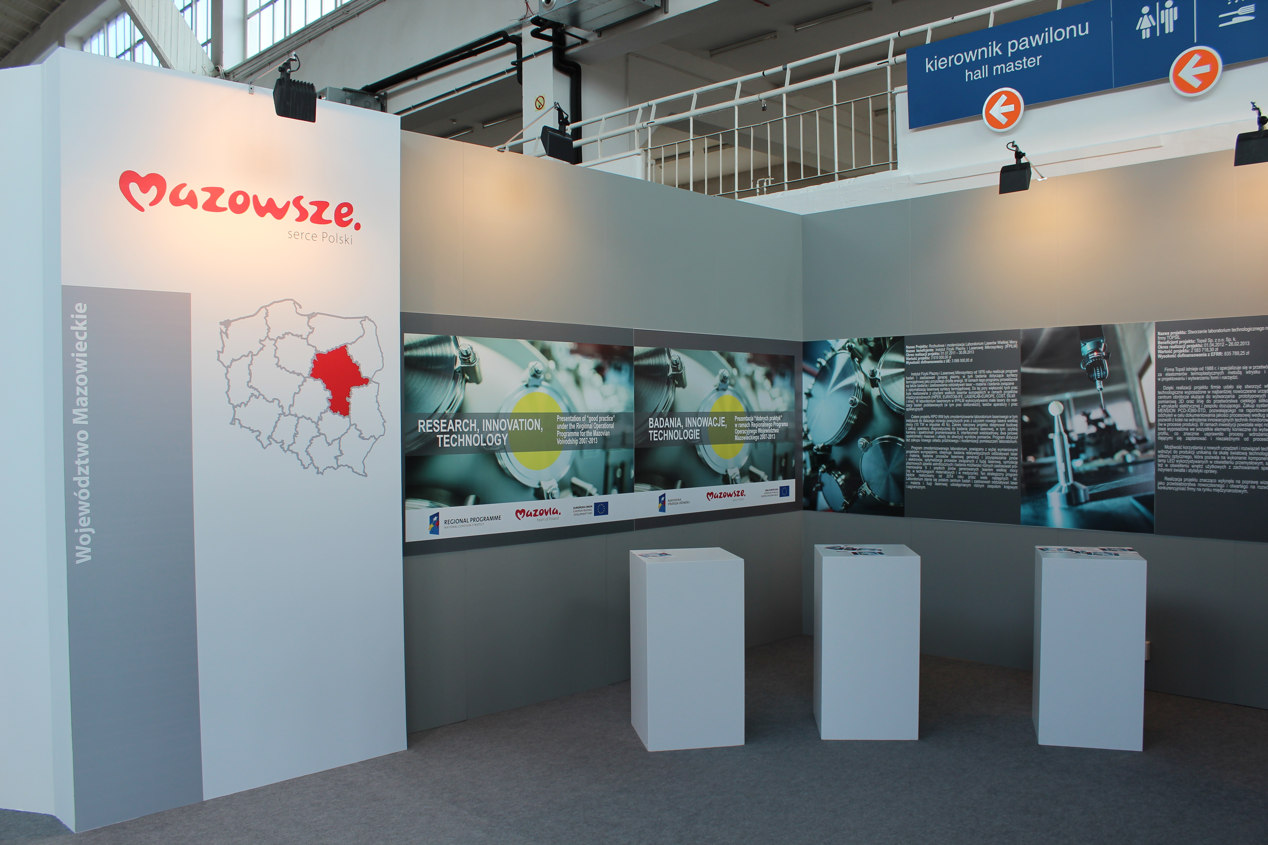 2nd General National Exhibition "Competitive Poland 1989-2014" - voivodeships presentation